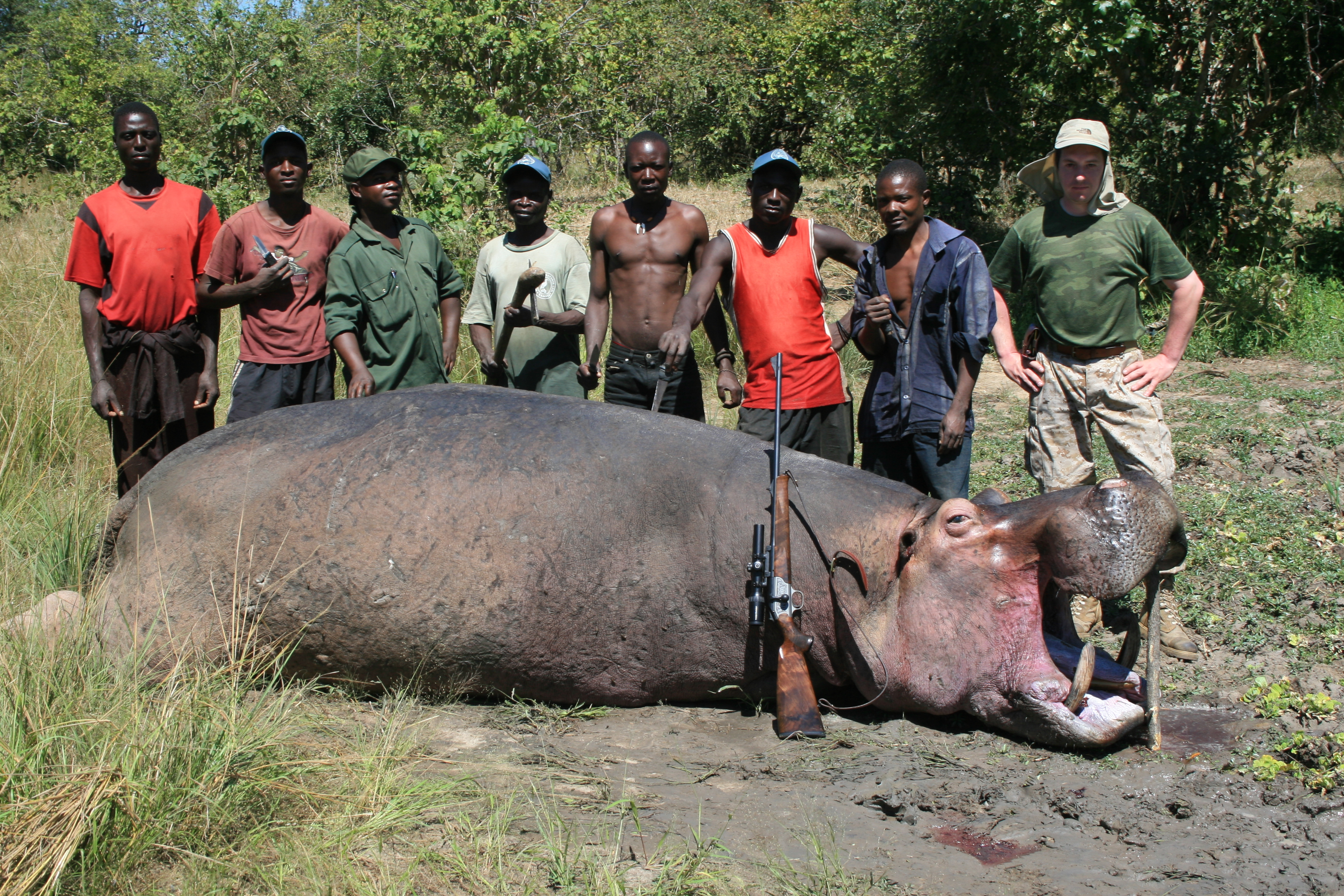 Bull Hippopotamus Shot in Zambia in May 2010